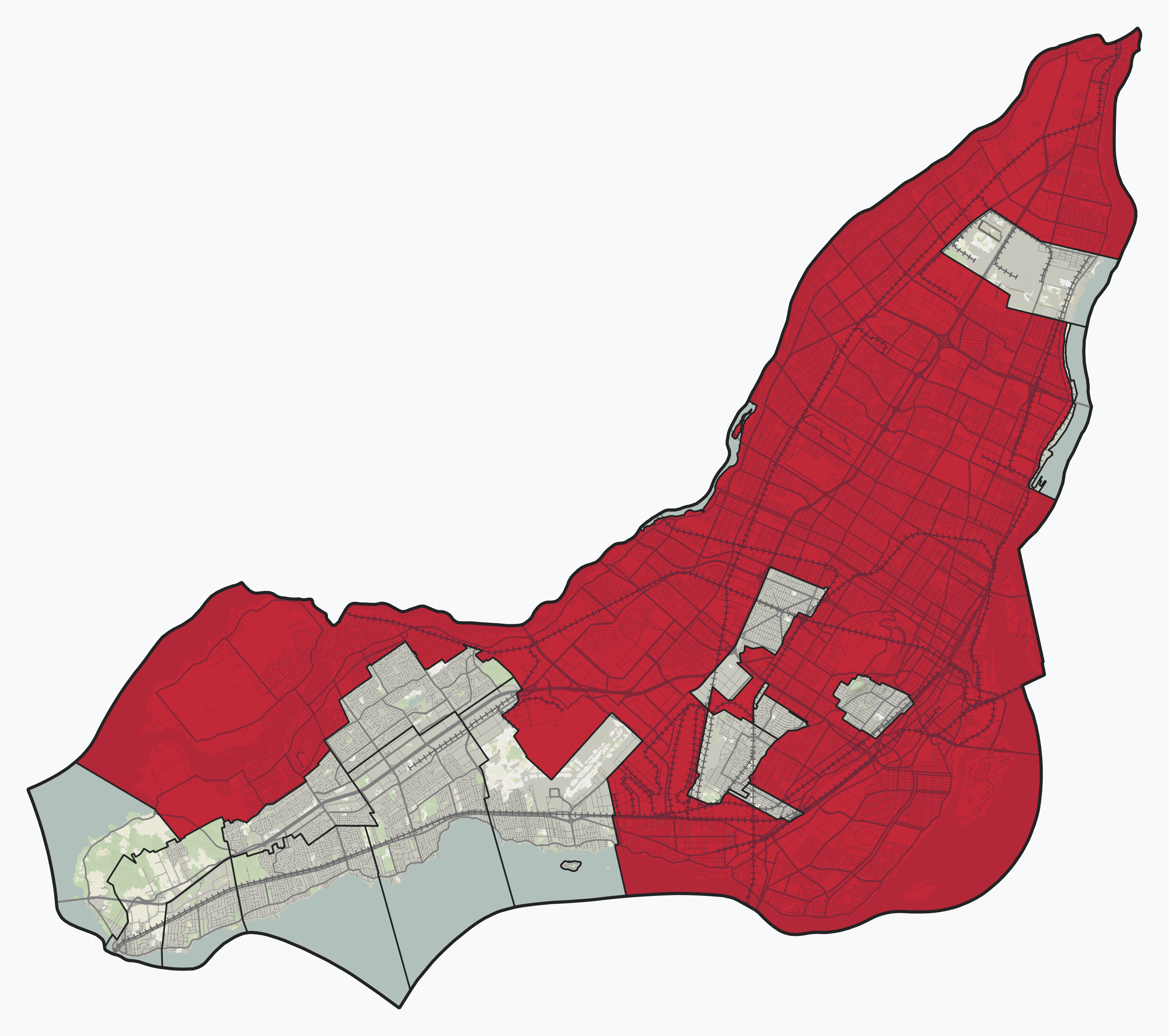 Experimental SVG overview of Québec municipalities using open CEC Landsat-derived land cover data (2010) to generate a naturalistic colour scheme. More information here. Vector features are from Statistics Canada and Données Québec, accessed July 21, 2019. Indian reserves are depicted with a red shapeburst fill.